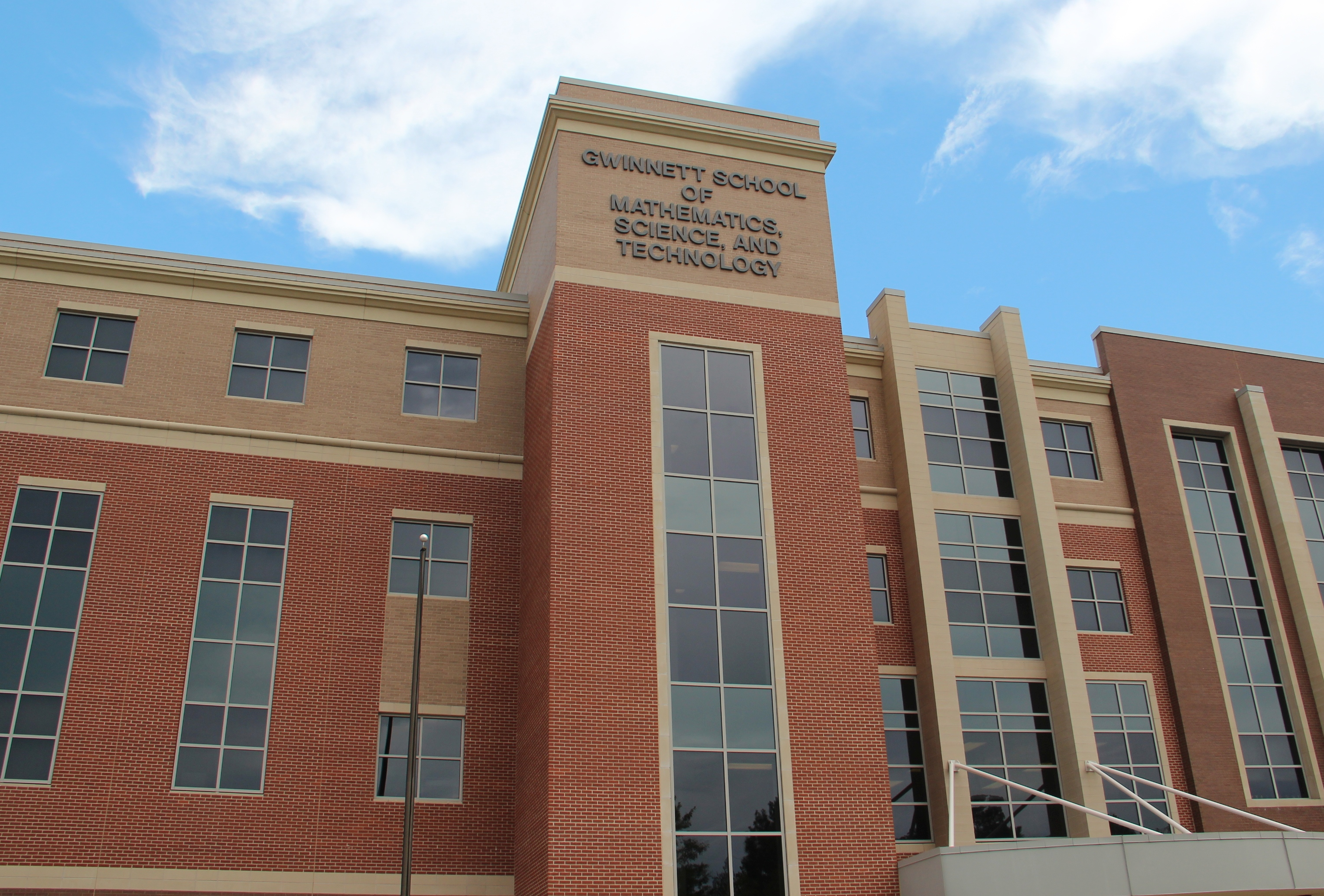 Gwinnett School of Mathematics, Science, and Technology in July, 2016